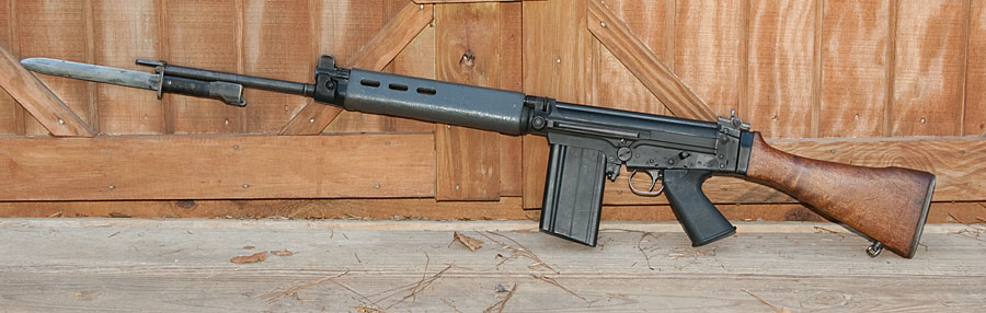 fitted with plastic handguard and pistol grip, wooden buttstock plain barrel mounted with bayonet